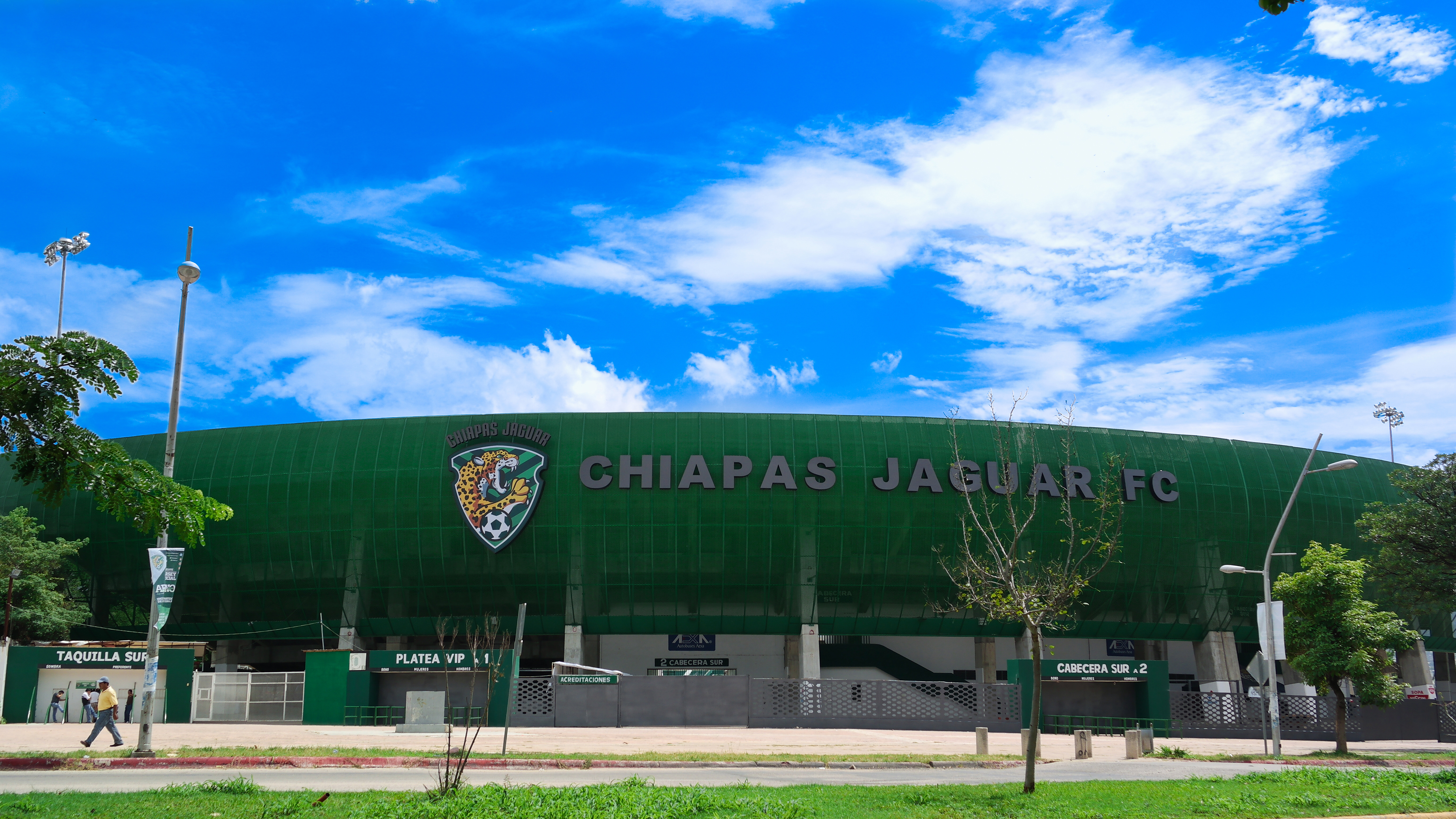 Estadio Zoque Víctor Manuel Reyna, Tuxtla Gutiérrez